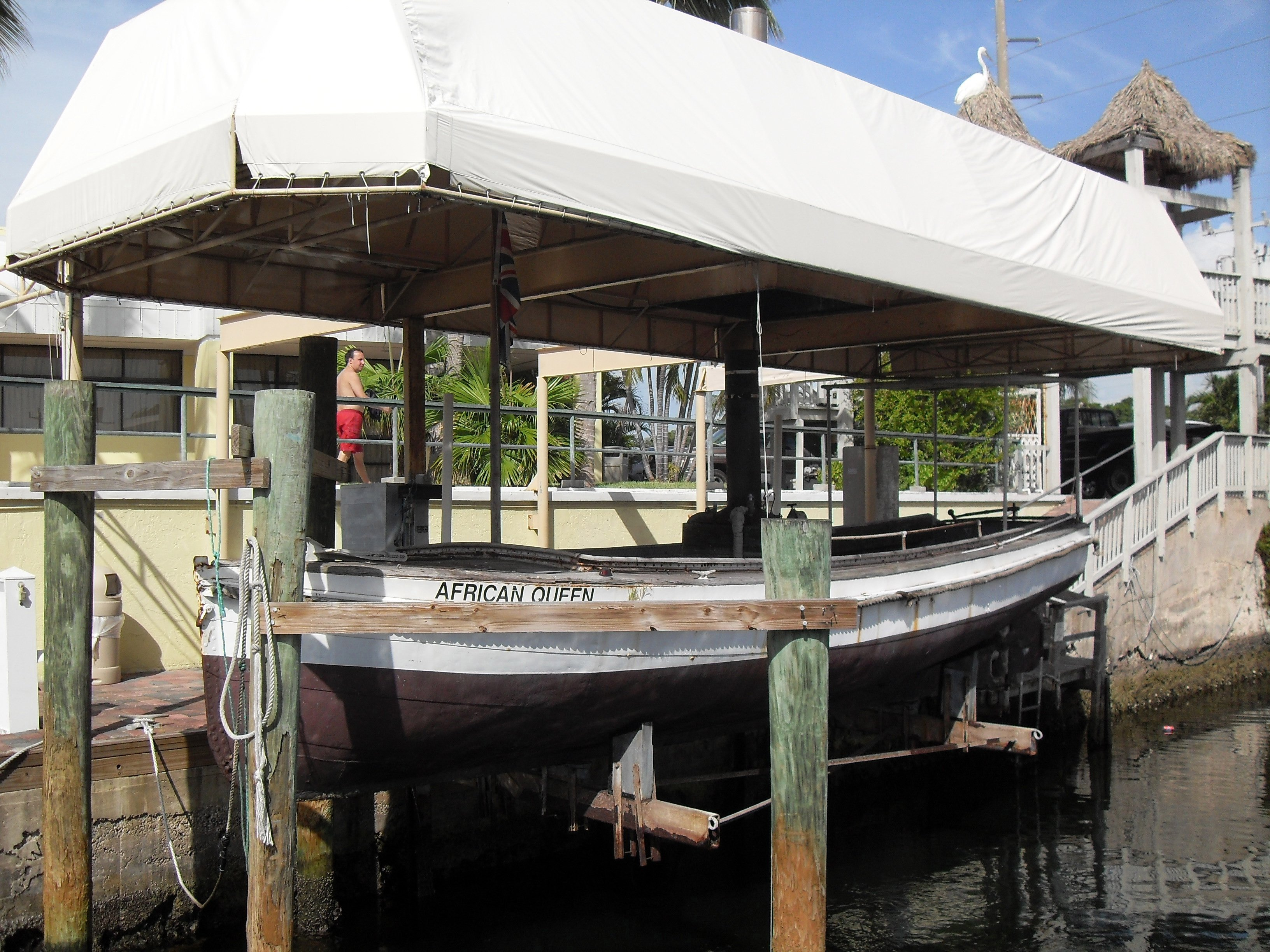 Boat African Queen from the movie with the same name